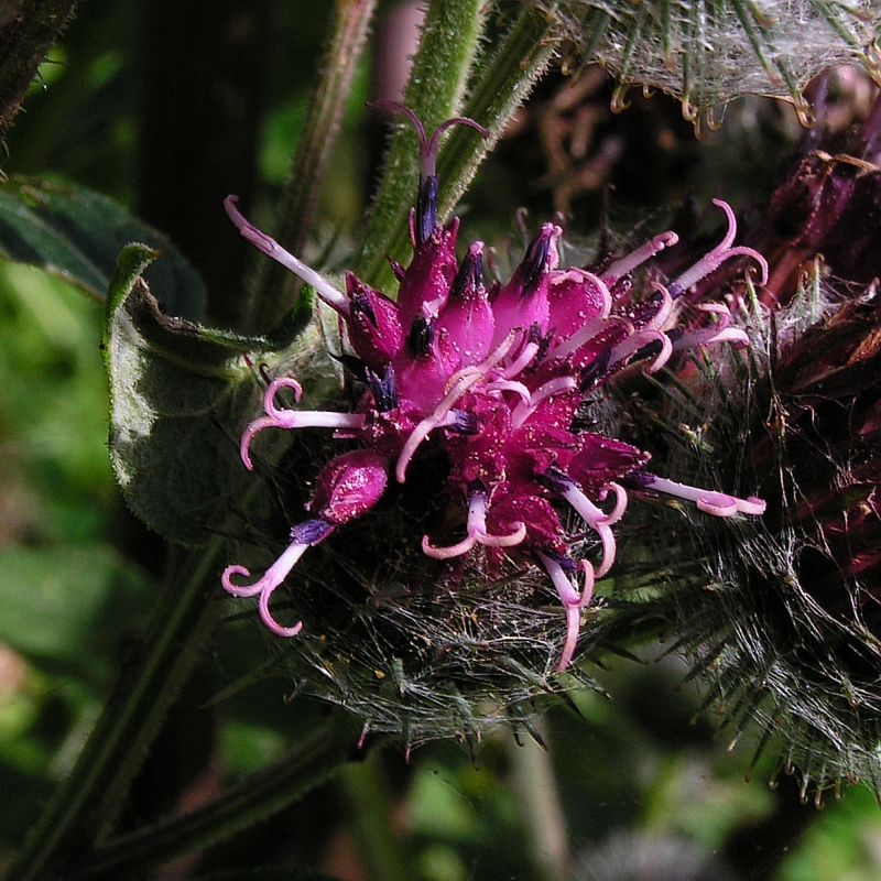 Inflorescence of Woolly burdock. Moscow region, Russia.